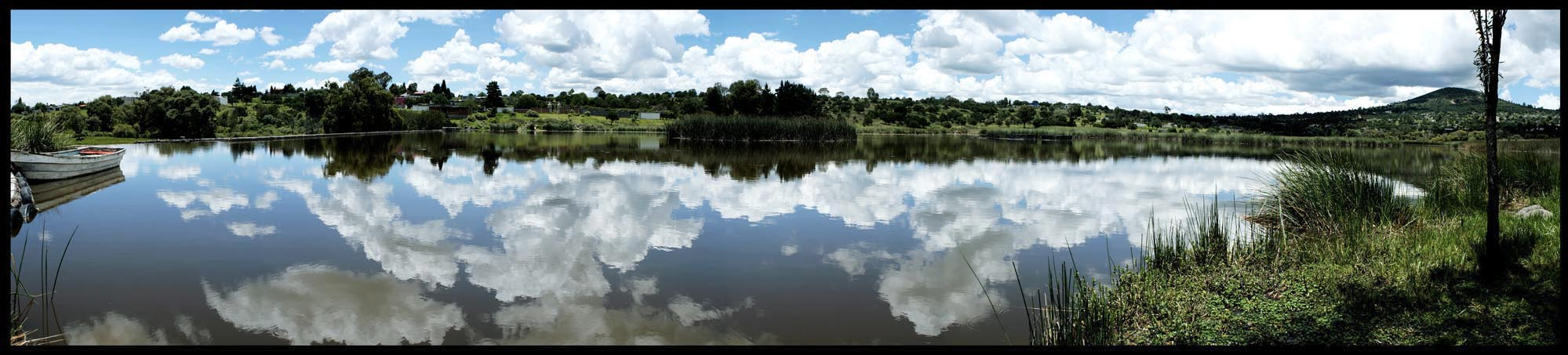 La laguna de Apizaquito se encuentra en la comunidad de Apizaquito, en el municipio de Apizaco, Tlaxcala, México.